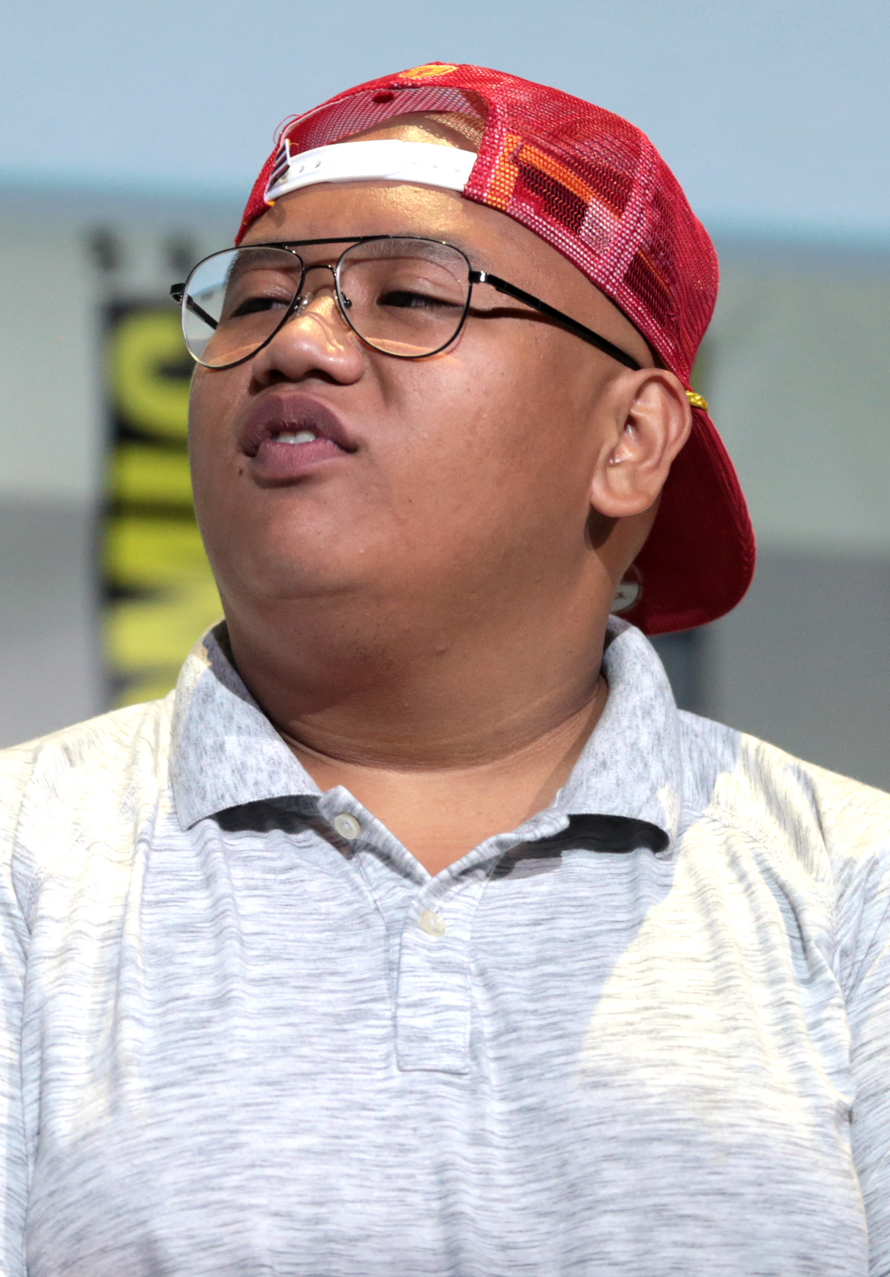 Jacob Batalon speaking at the 2016 San Diego Comic-Con International in San Diego, California.